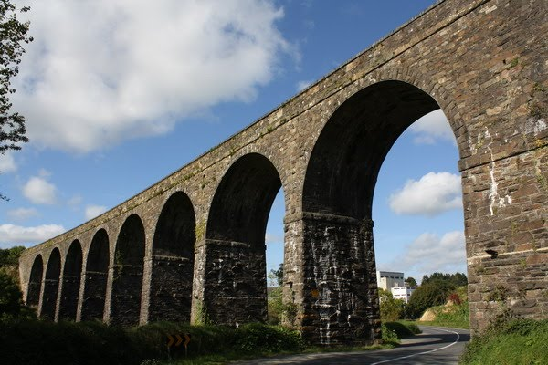 The viaduct part of the old Waterford to mallow train line.